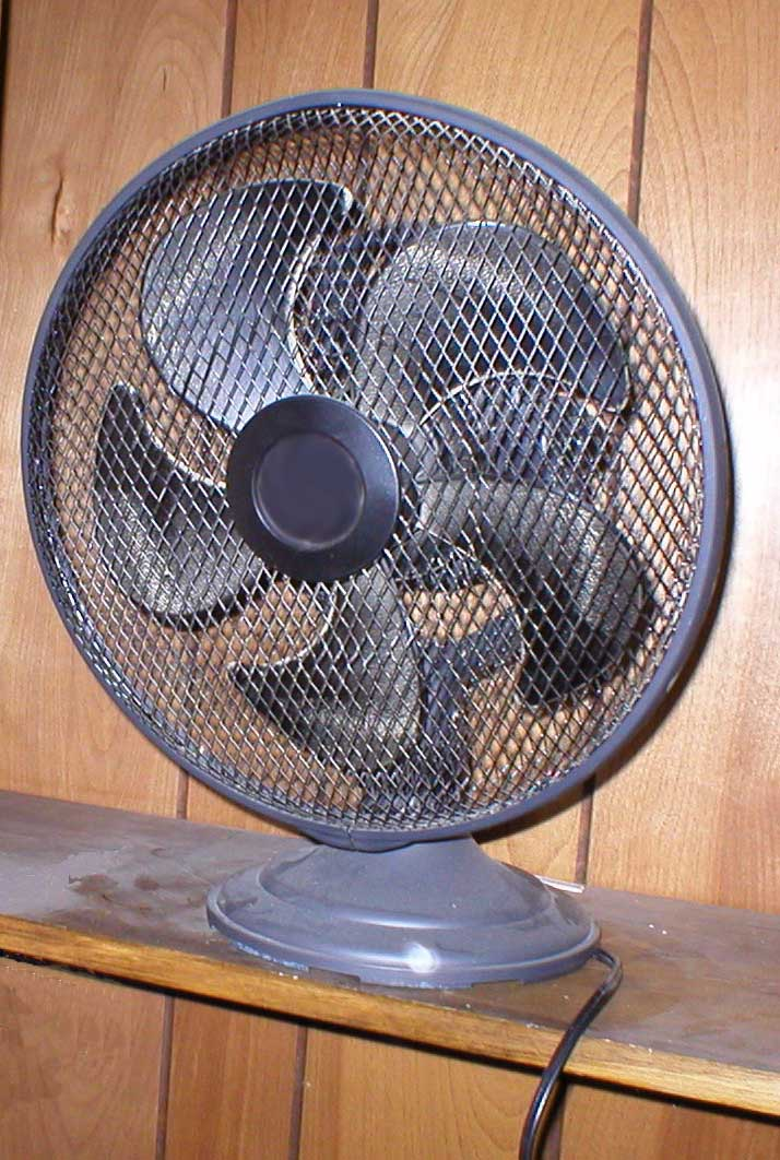 Household Electric Fan, Small Image